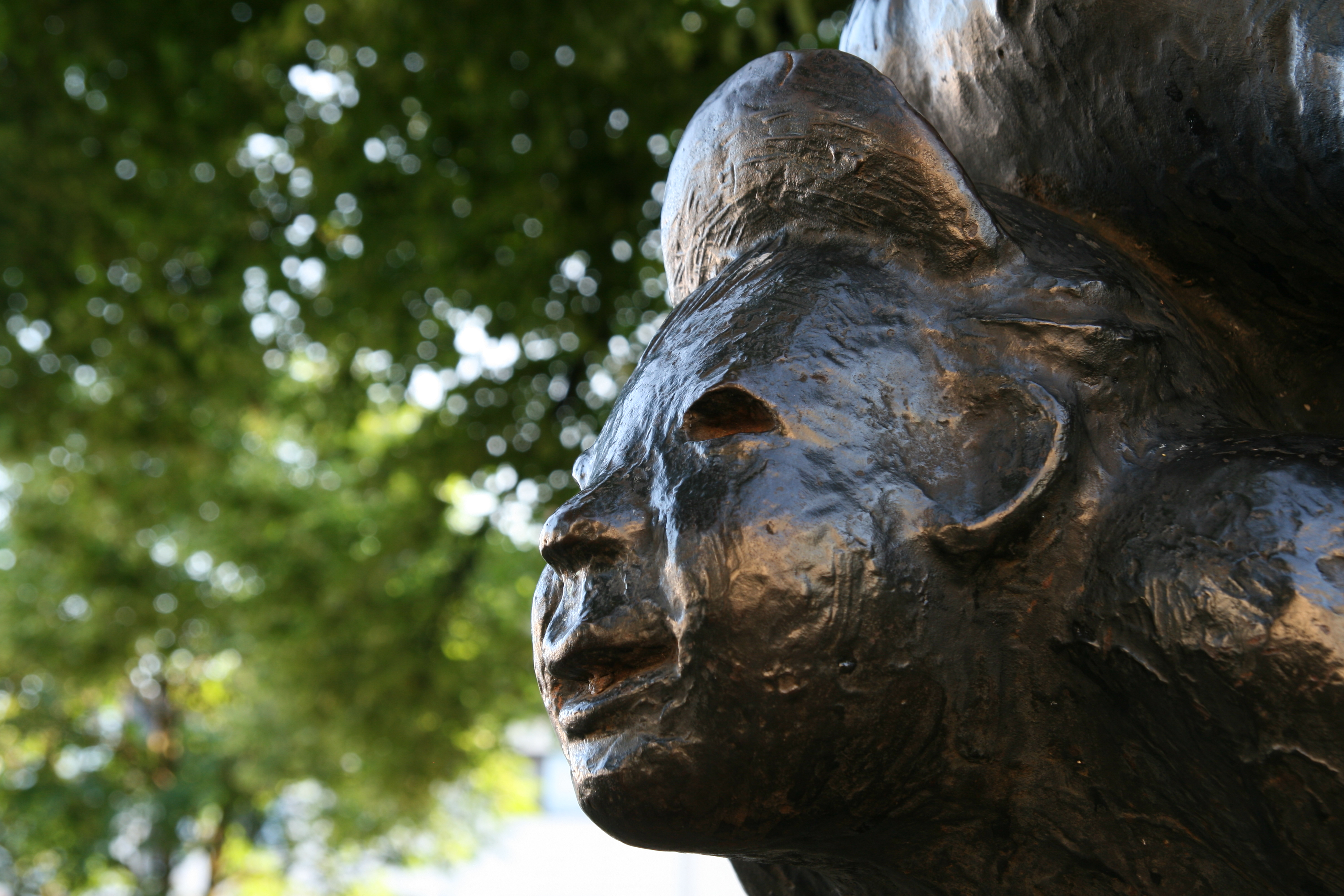 Fountain "Max and Moritz" in Cologne-Neuehrenfeld, Detail